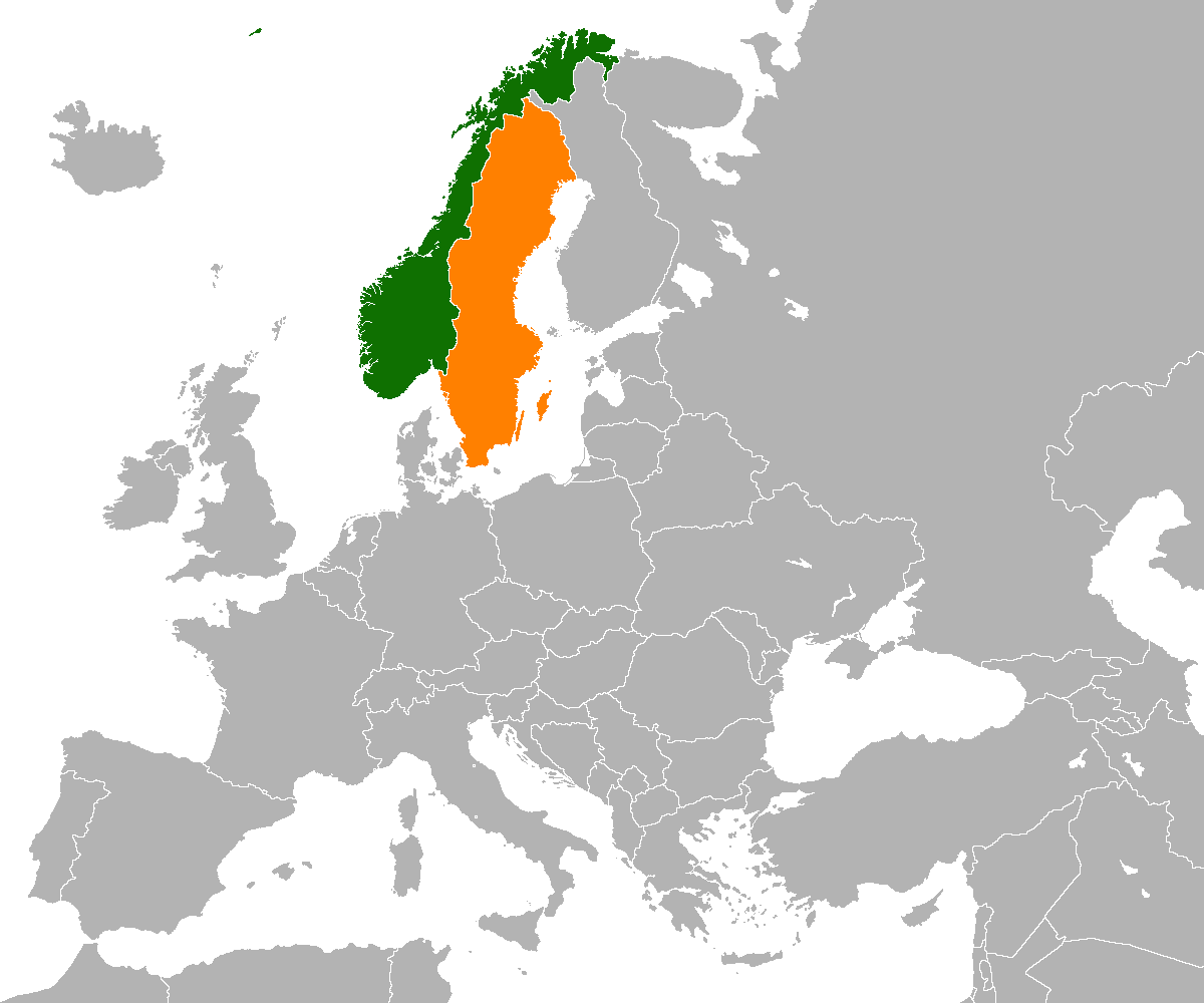 Made from a blank world map